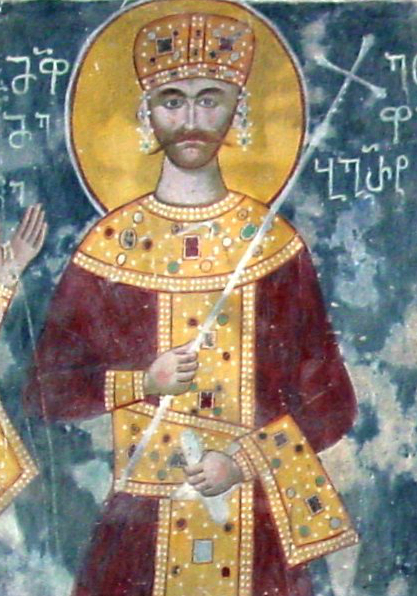 King of Imereti, Bagrat III